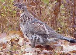 Ruffed Grouse from USFWS